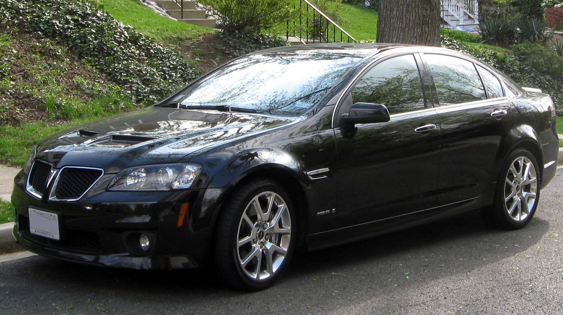 Pontiac G8 GXP photographed in Washington, D.C., USA.